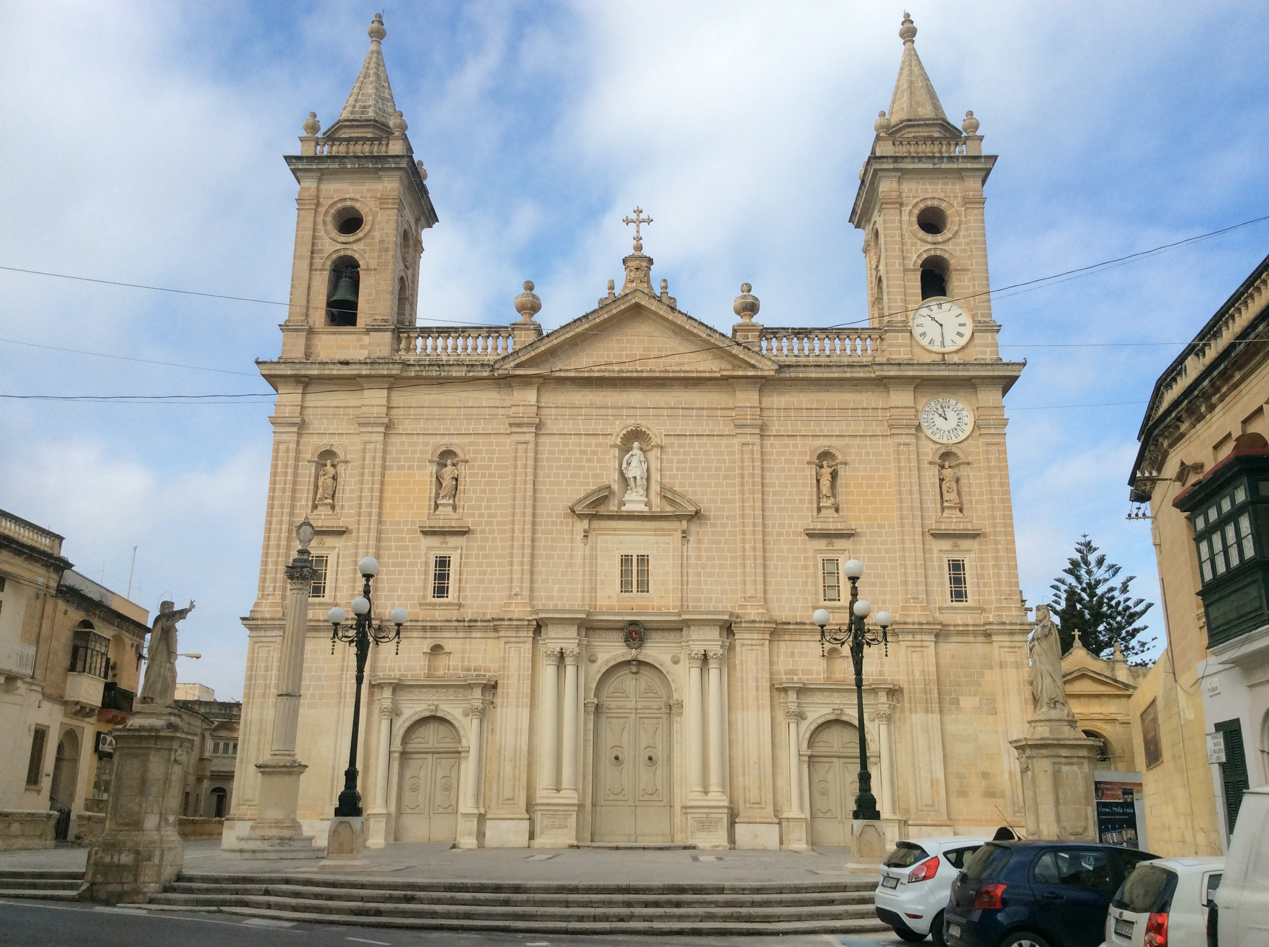 Sait George Church, Qormi